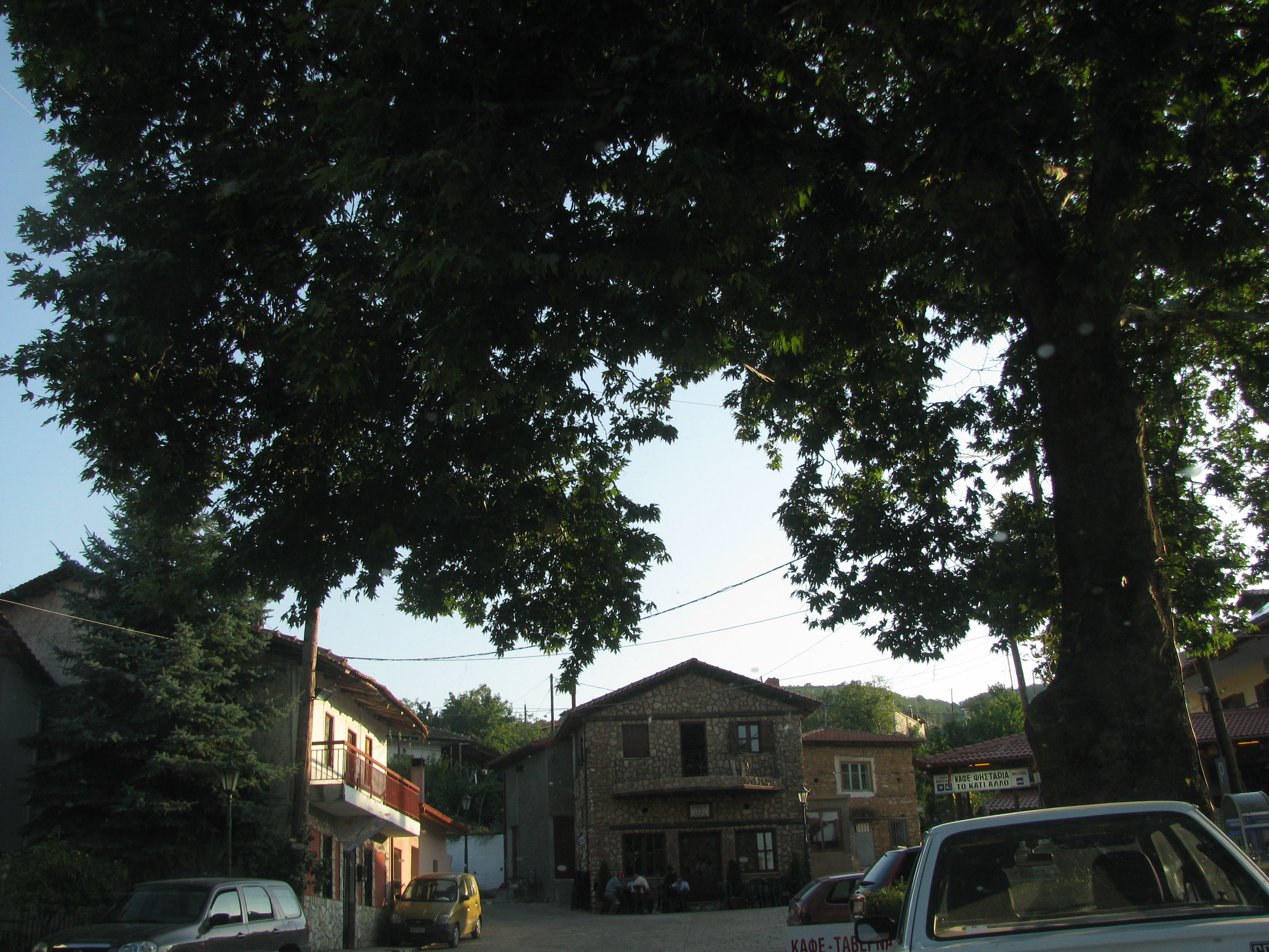 Village of Lyumnitsa or Skra, Greece